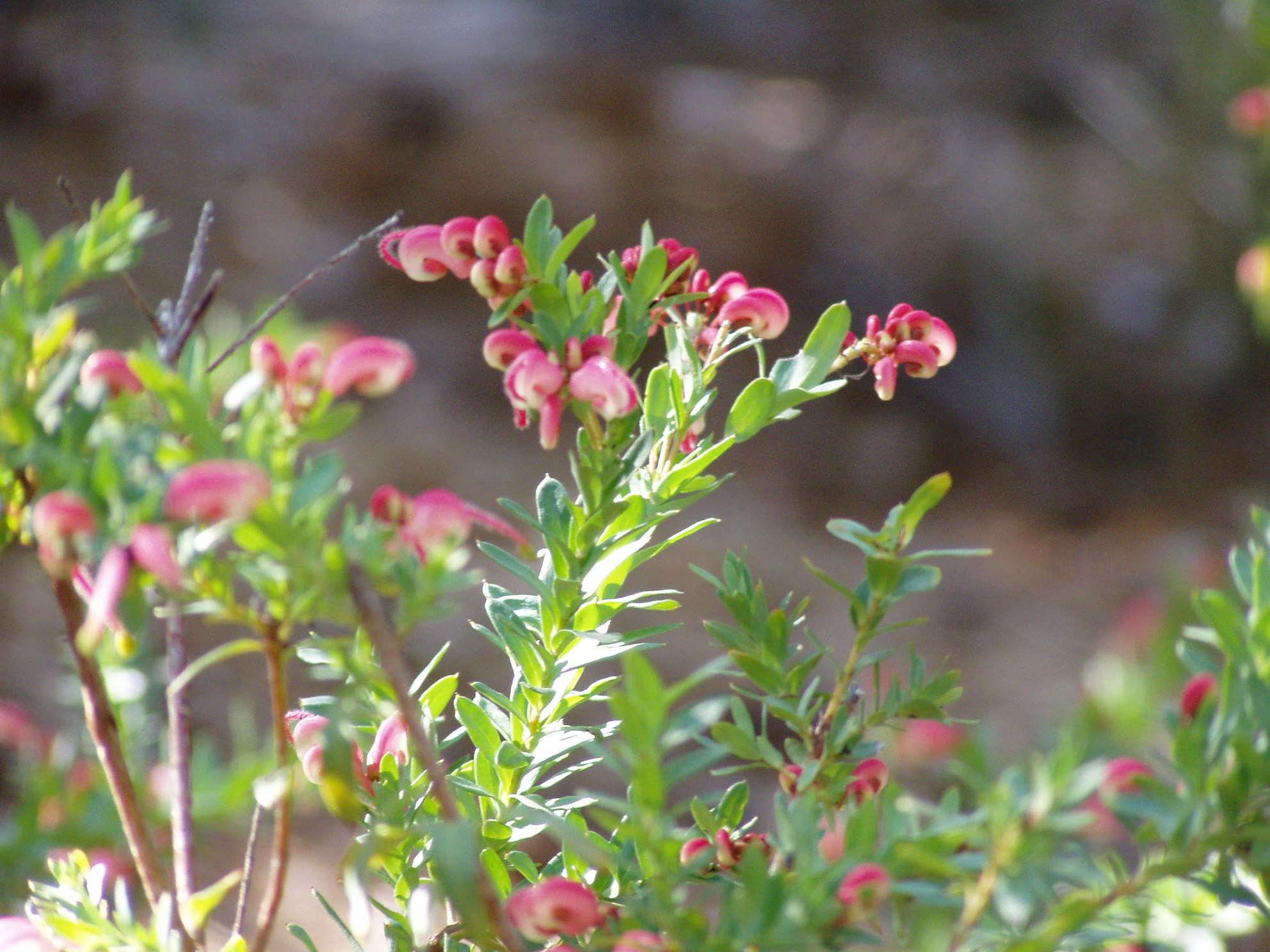 Description: Bauer's Grevillea (Grevillea baueri) Location: Australian National Botanic Gardens, Canberra, Australian Capital Territory, Australia Date: 2005-09-21 Source: picture taken by Danielle Langlois Licence: Released under GFDL and Creative Commons licenses by the photographer